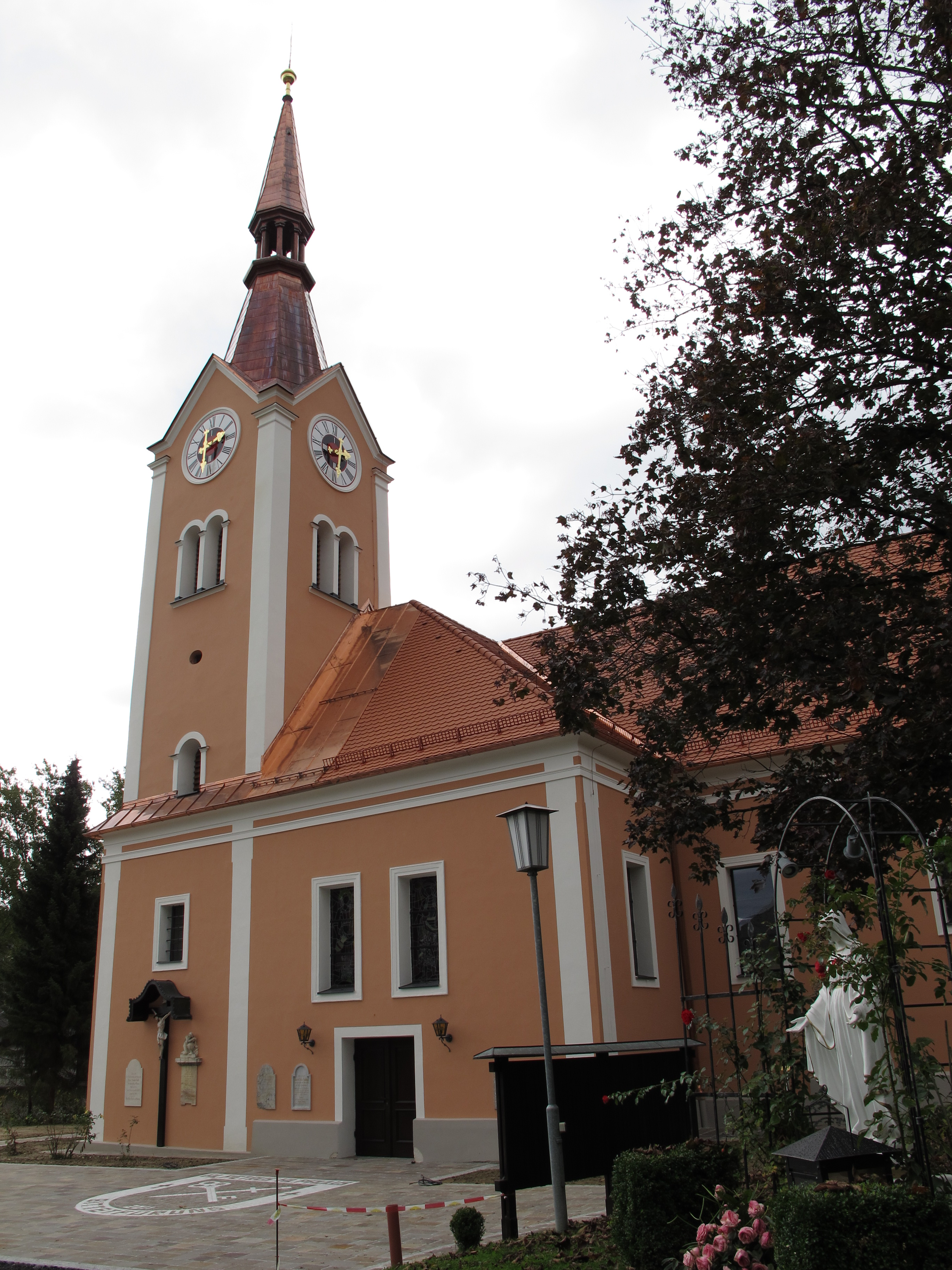 Pfarrkirche Hatzendorf